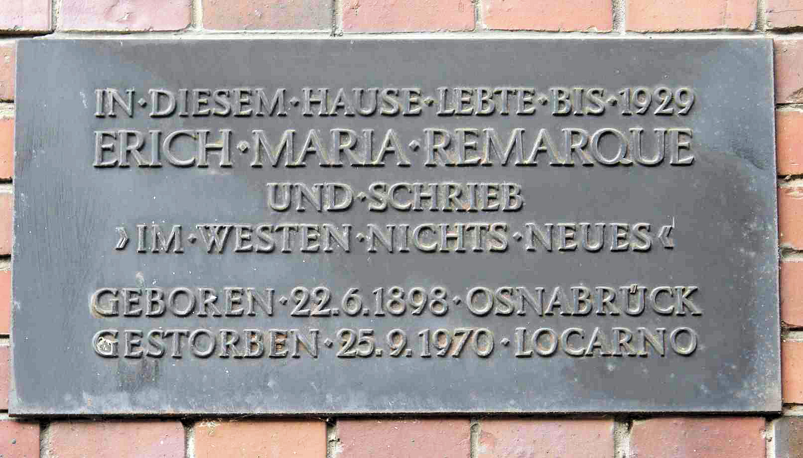 Memorial plaque, Erich Maria Remarque, Wittelsbacher Straße 5, Berlin-Wilmersdorf, Germany Koordinate:52°29′40″N 13°18′56″E / 52.49444°N 13.31556°E